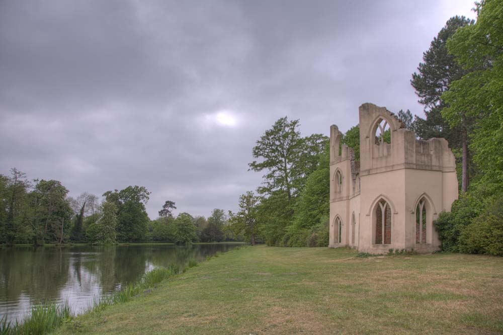 Author: Antony McCallum